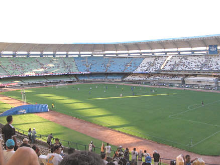 Intern view of Castelão Stadium